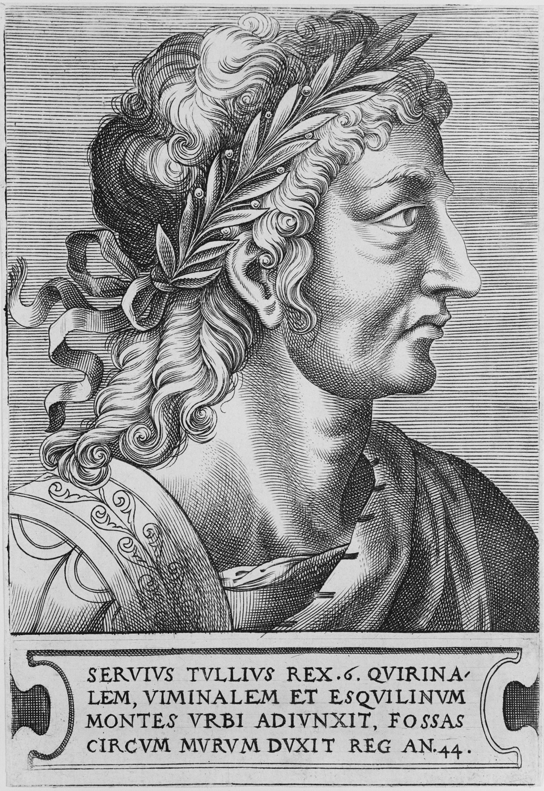 16th century depiction of Servius Tullius, the sixth legendary king of ancient Rome.